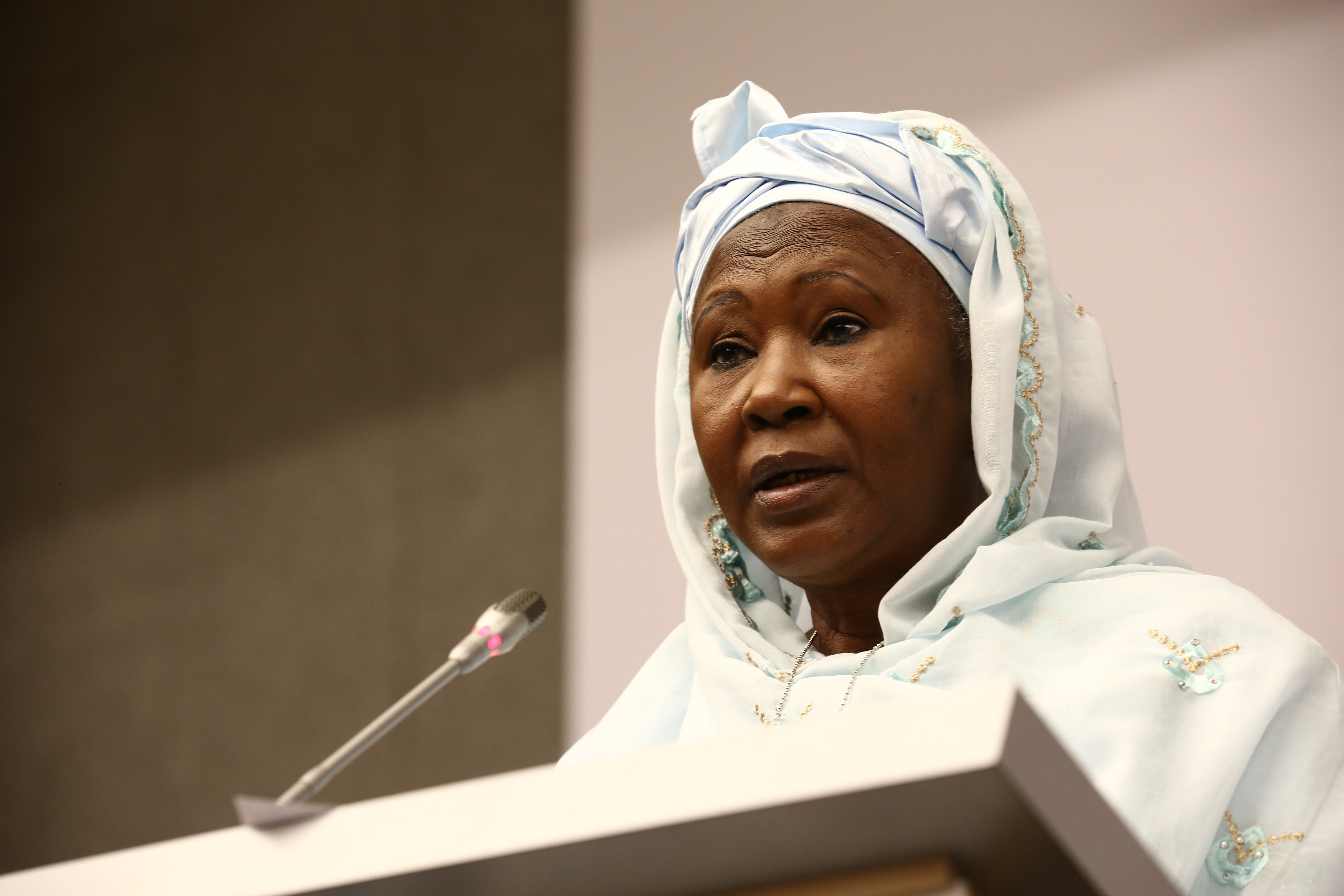 Photos from the WTO Aid for Trade Global Review 2017 photo gallery may be reproduced provided attribution is given to the WTO and the WTO is informed. Photos: © WTO/Jay Louvion